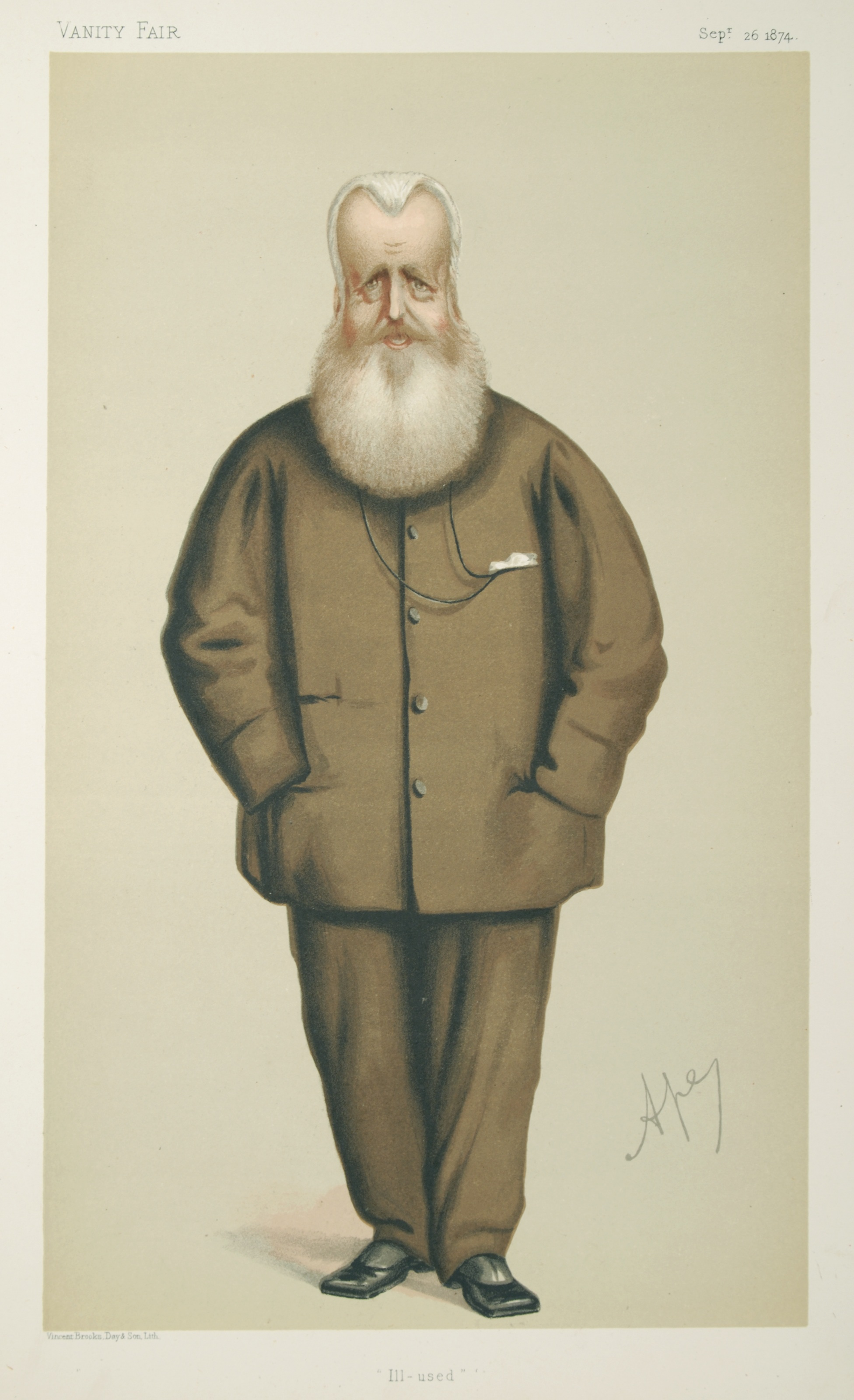 Statesmen No.185: Caricature of Sir James Hudson, G.C.B., former British ambassador to Piedmont. Caption read "Ill-used".